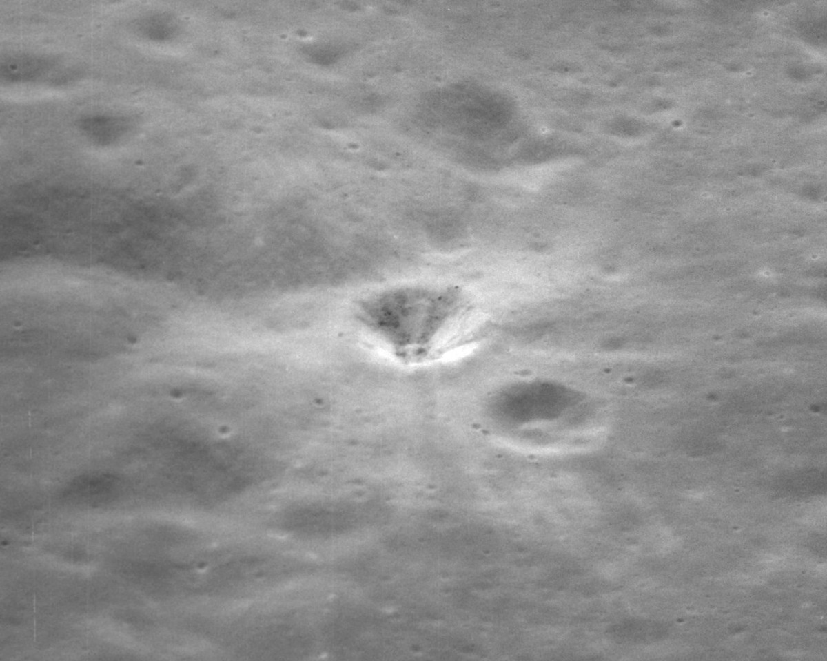 Oblique view of North Ray crater (center), north of the Apollo 16 landing site, Descartes Highlands, on the moon. This is cropped from a Hasselblad camera closeup image of the site taken from lunar orbit during Apollo 14. The crater to the lower right of North Ray is called Kiva. The hill to upper left of North Ray is Smoky Mountain.